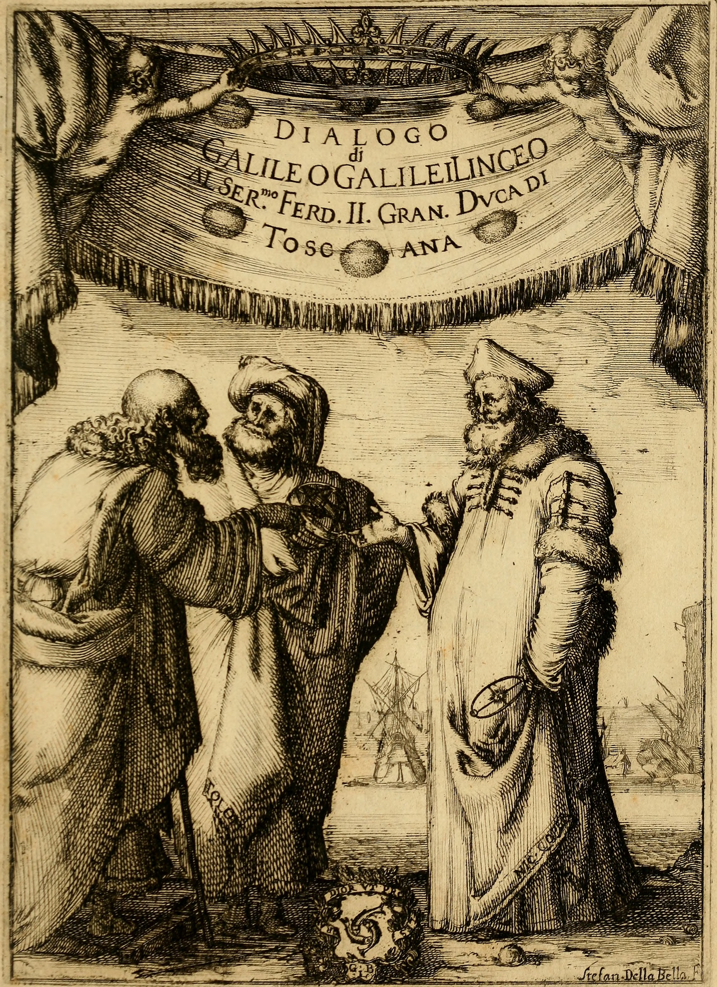 Title: Dialogo di Galileo Galilei Linceo matematico sopraordinario dello studio di Pisa. E filosofo, e matematico primario del serenissimo gr. duca di Toscana. Doue ne i congressi di quattro giornate si discorre sopra i due massimi sistemi del mondo tolemaico, e copernicano; : proponendo indeterminatamente le ragioni filosofiche, e naturali tanto per l'vna, quanto per l'altra parte Year: 1632 (1630s) Authors: Galilei, Galileo, 1564-1642 Landini, Gio. Batista (Giovanni Batista), printer Della Bella, Stefano, 1610-1664, engraver Burndy Library, donor. DSI Subjects: Astronomy Tides Publisher: In Fiorenza, : Per Gio: Batista Landini Text Appearing Before Image: 8 Text Appearing After Image: 5